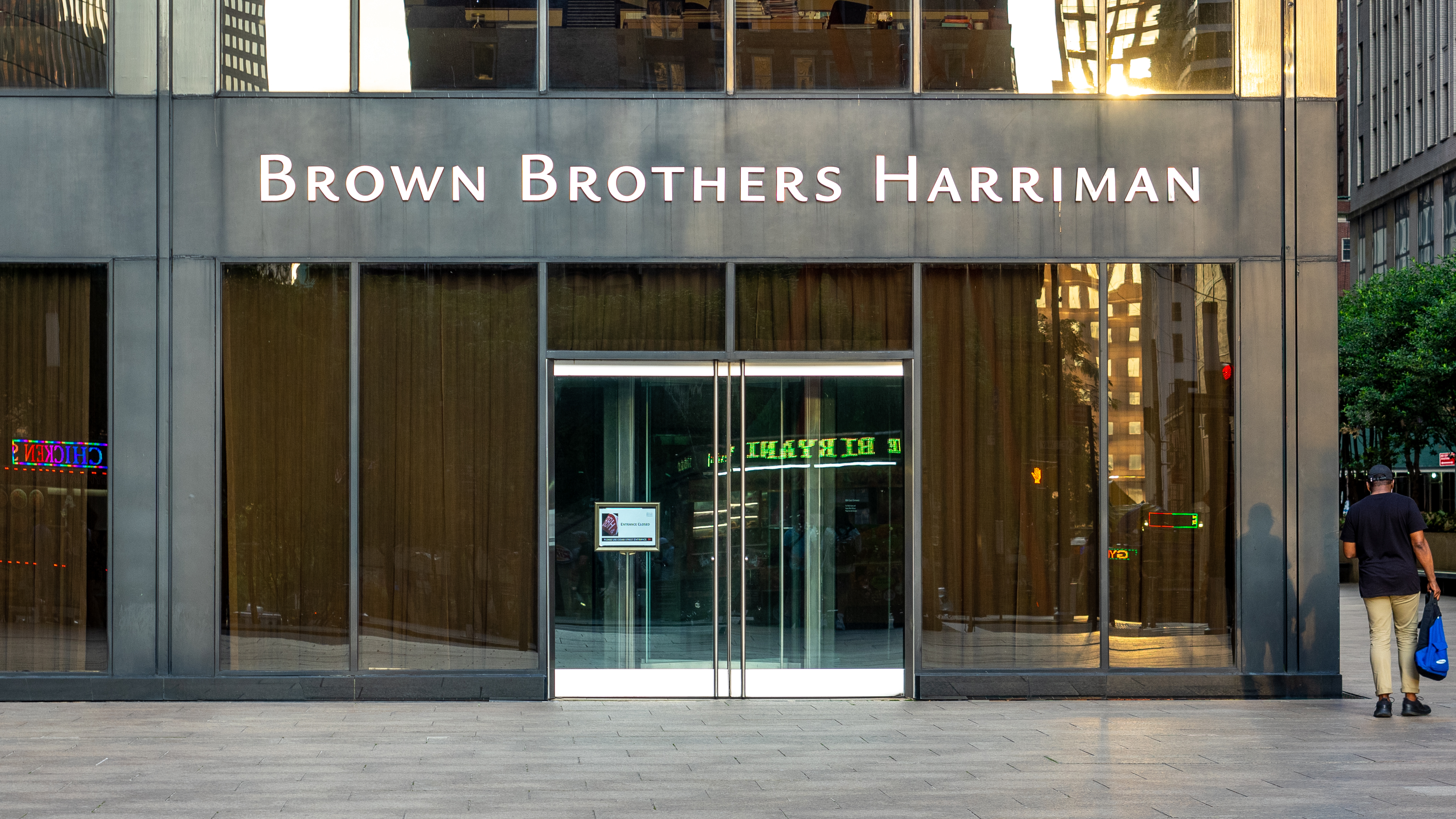 Financial District, NYC